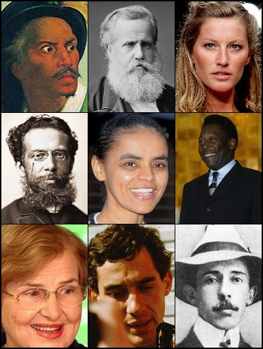 Brazilian People Imagebox